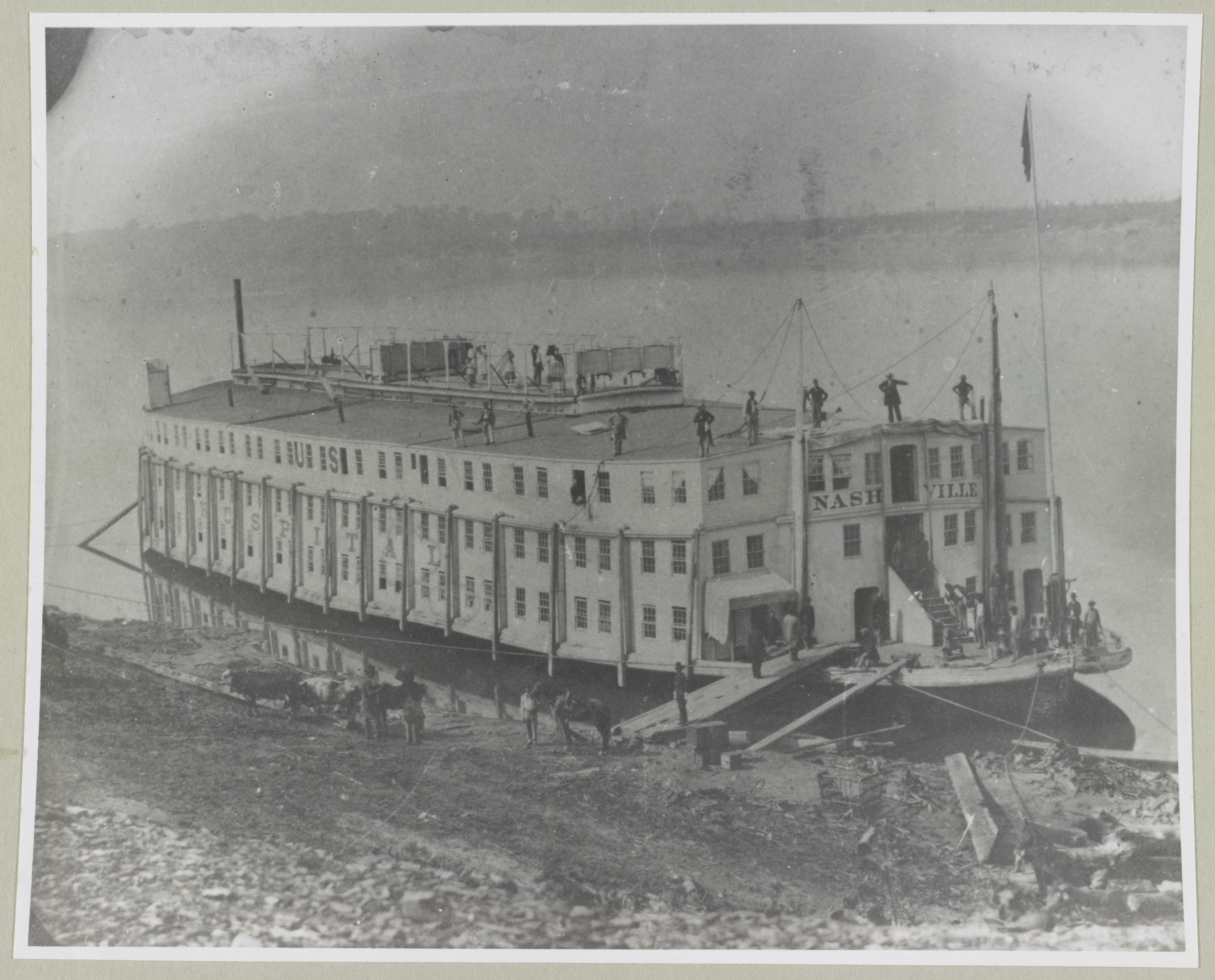 Title: Hospital ship, Nashville Physical description: 1 photographic print on card mount : gelatin silver. Notes: Title from item.